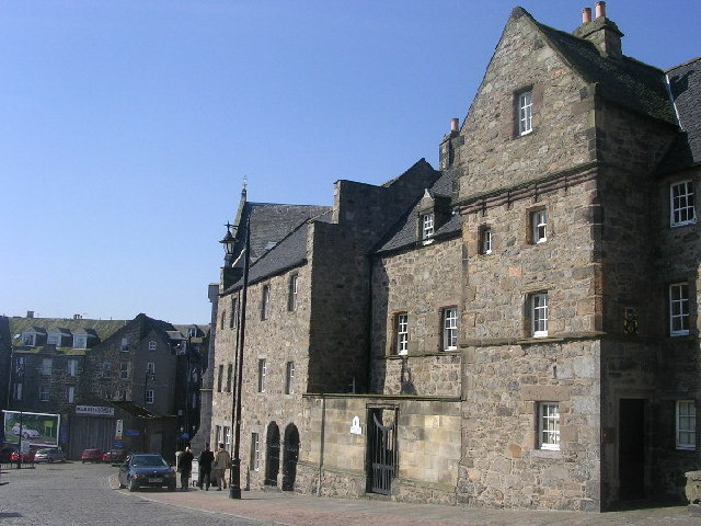 Provost Ross' House. One of the oldest houses in Aberdeen, this dates from 1593. It was in a sorry state by the 1950s and was threatened with demolition. Fortunately it was restored by the National Trust For Scotland in 1954. Sadly the view looking in the other direction, towards the Town House, that can be seen in Colin Smith's 1990 photograph has been ruined by the unwelcome addition of a grotesque eyesore of a cinema. This shabby building, constructed in 2000, now obscures much of the view of the splendid baronial town house.